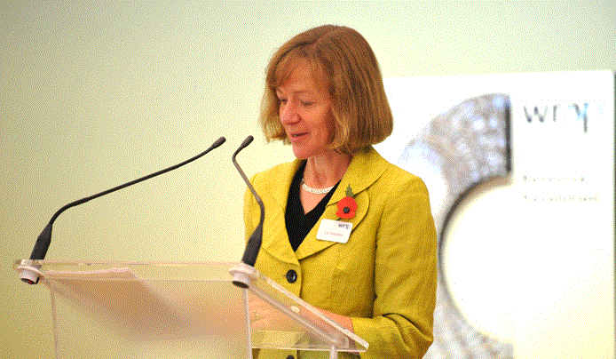 Dr Liz Goodwin delivering a speech